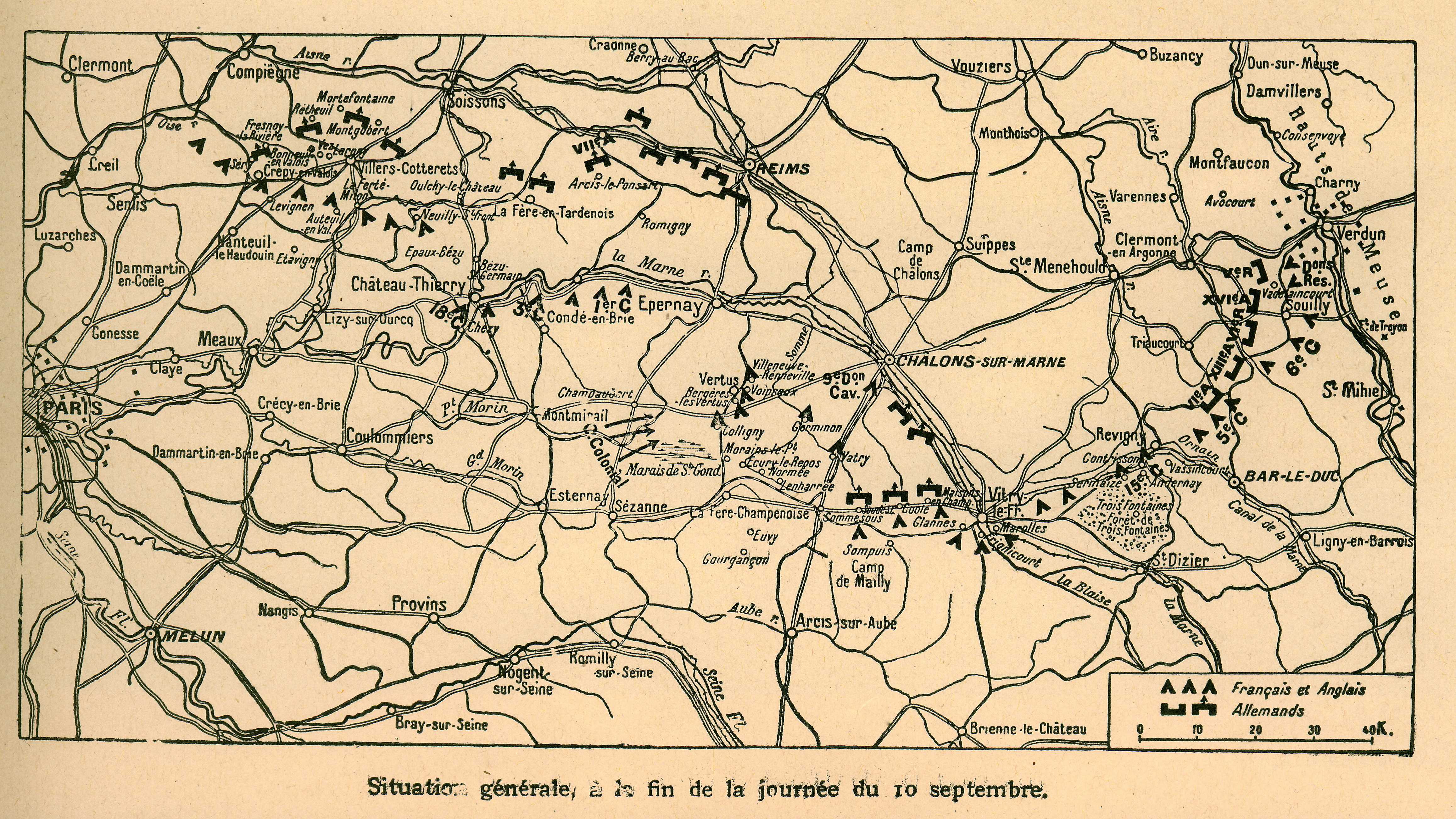 contemporary french map of the first battle of the Marne, day six, 10th september 1914